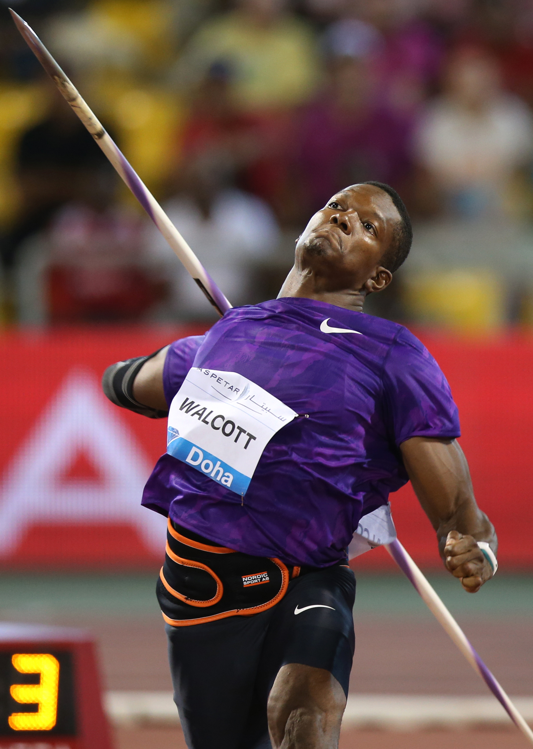 Trinidad and Tobago's Keshorn Walcott in action during the men's javelin throw at the Doha Diamond League meeting.